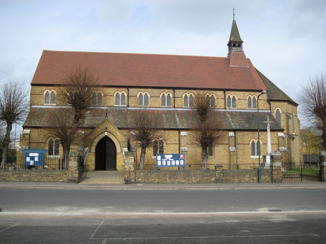 Parish Church of St Augustine of Canterbury, Slade Green Road, southeast London (formerly Kent), seen from the south